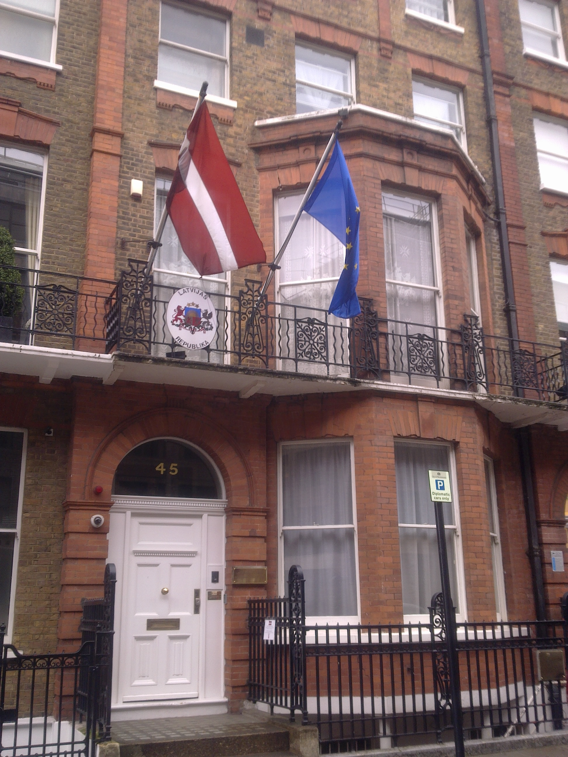 Embassy of Latvia in London 1